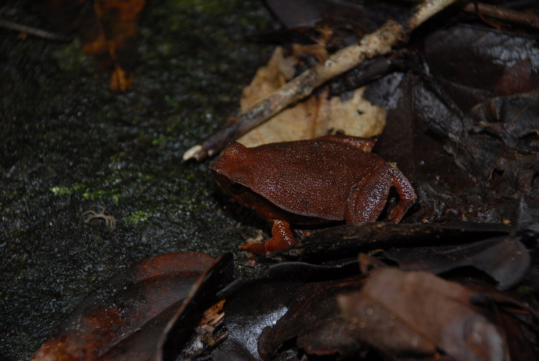 Kalophrynus pleurostigma